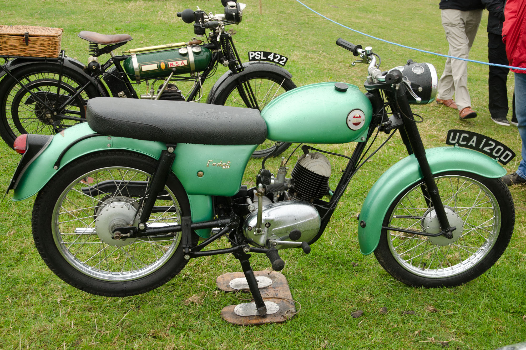 Nostell Priory Steam Fair 25/08/2014